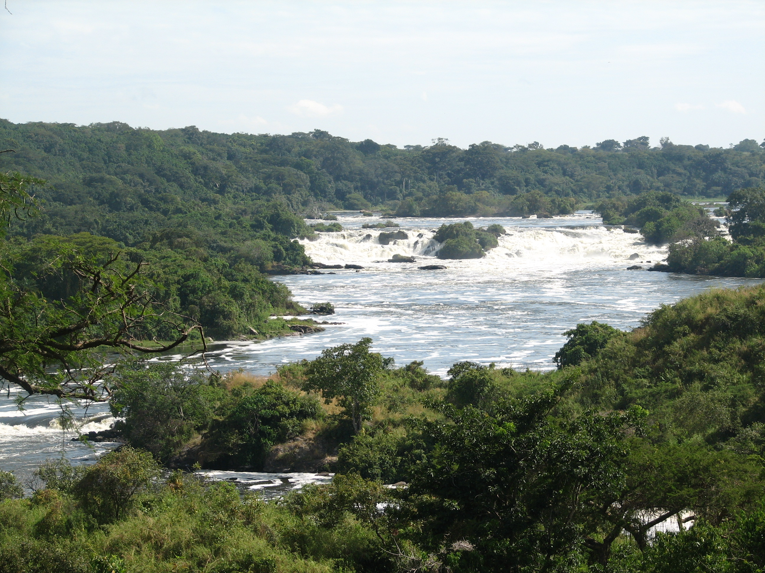 Karuma Falls are located along the Masindi-Gulu highway